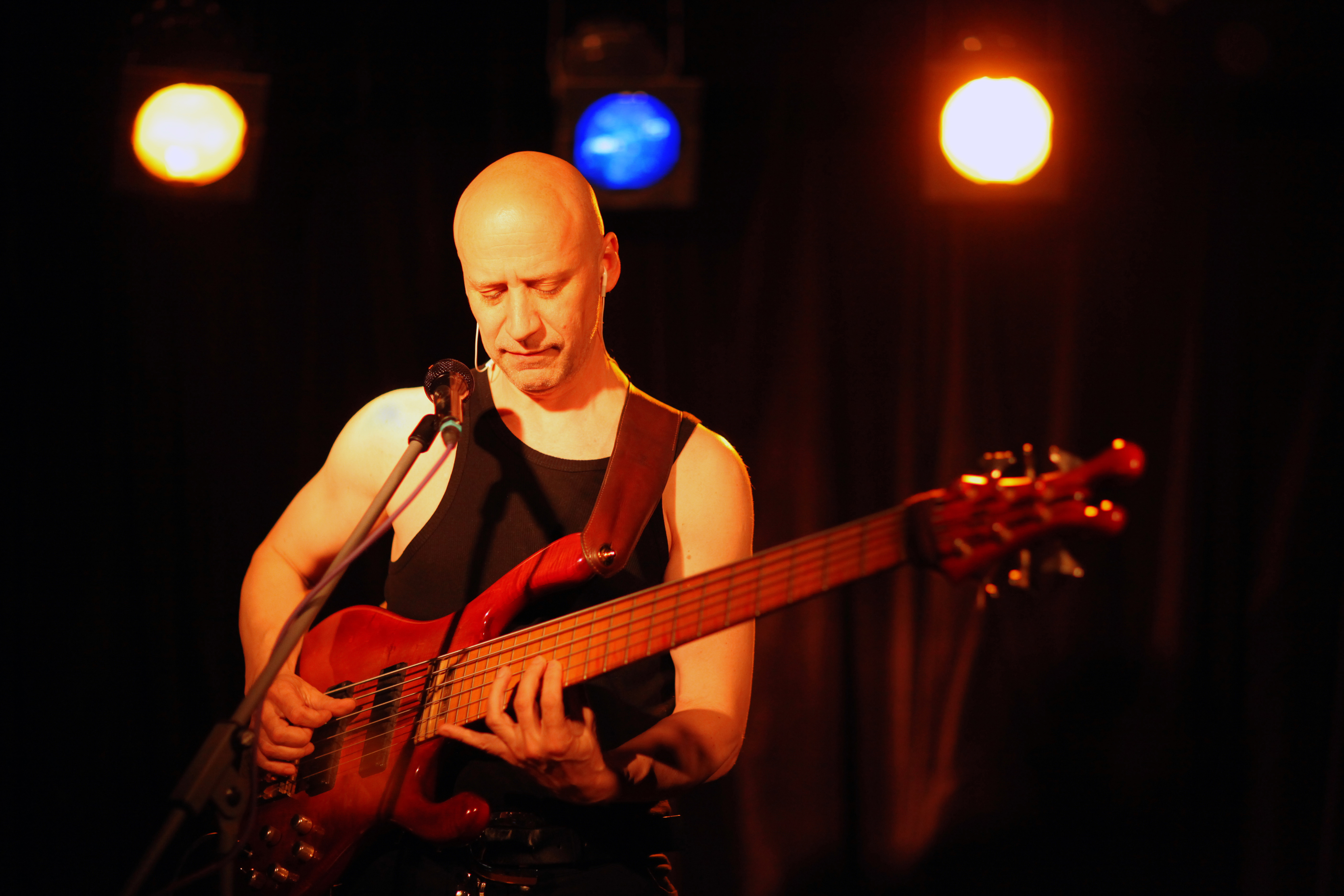 Richard Scheufler, Czech bass guitar player during the solo concert